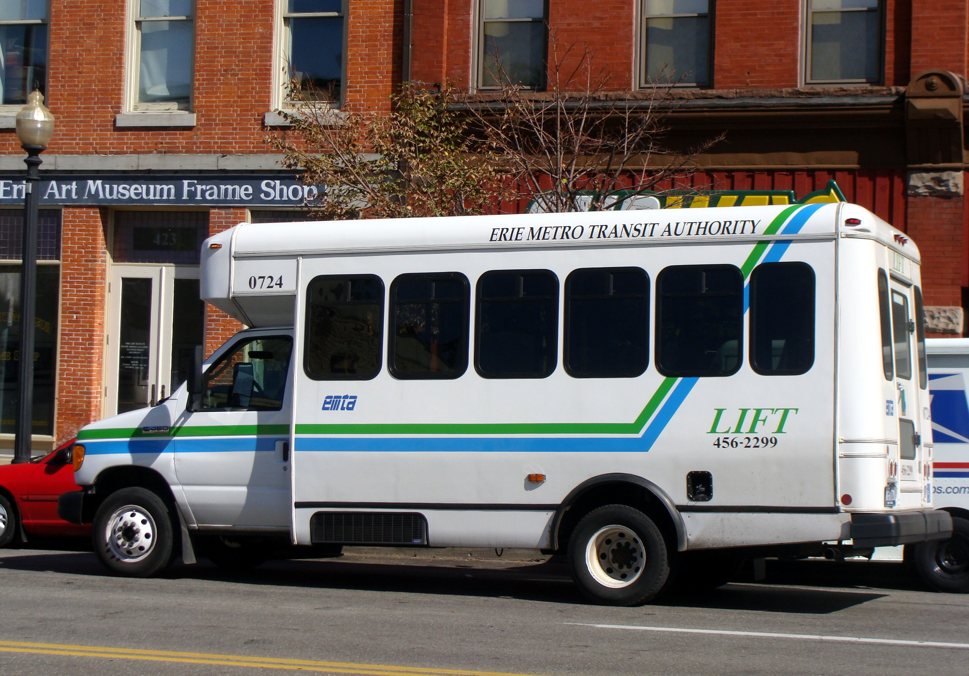 An Erie Metropolitan Transit Authority Ford F-450 bus used for paratransit.